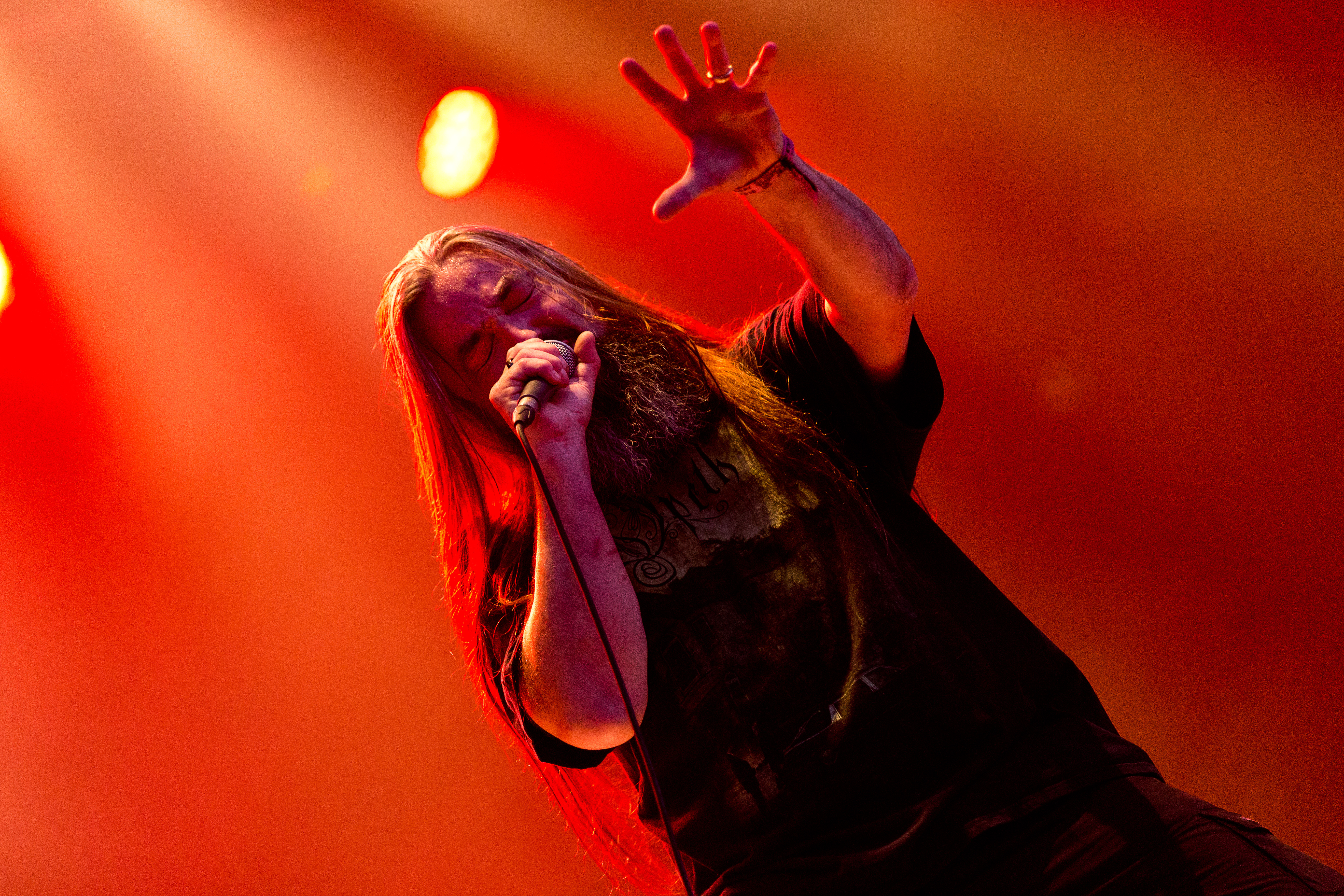 The British thrash metal band Onslaught at the Rockharz Open Air 2016 in Ballenstedt/Germany.